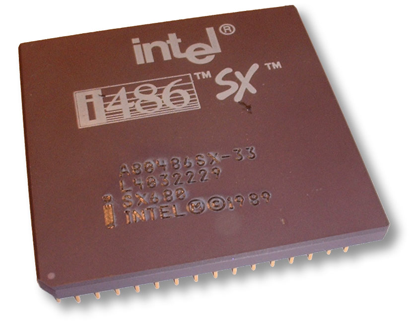 Intel 80486 SX 25 Picture taken by me (14 november 1:00 AM) NaSH 00:50, 1 Feb 2005 (UTC)